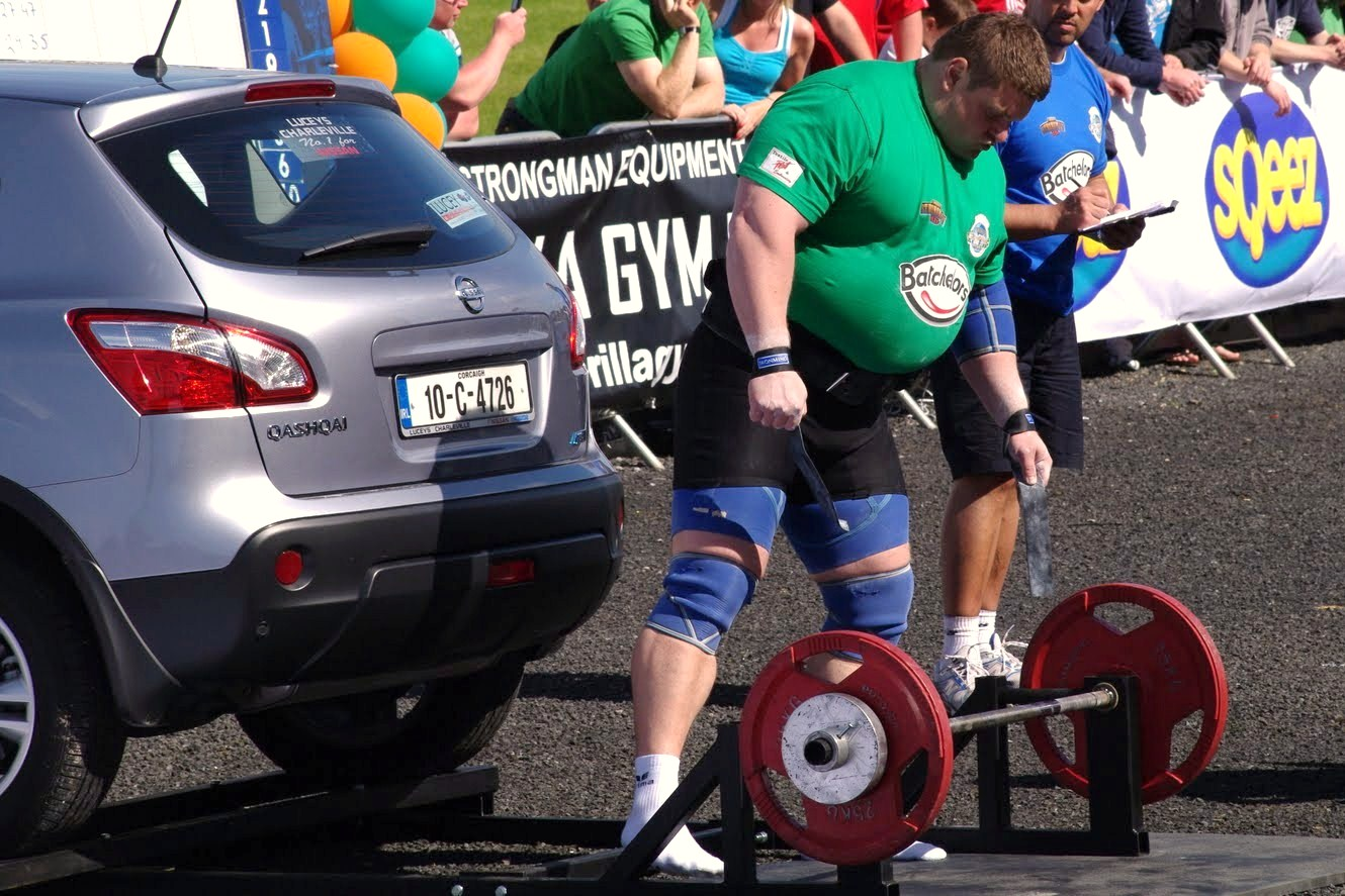 Žydrūnas Savickas (the top strength athlete from Lithuania) is about to begin the SUV Deadlift.